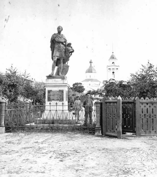 Monument of Kyrylo Rozumovsky in Gluhiv destroyed by Bolsheviks